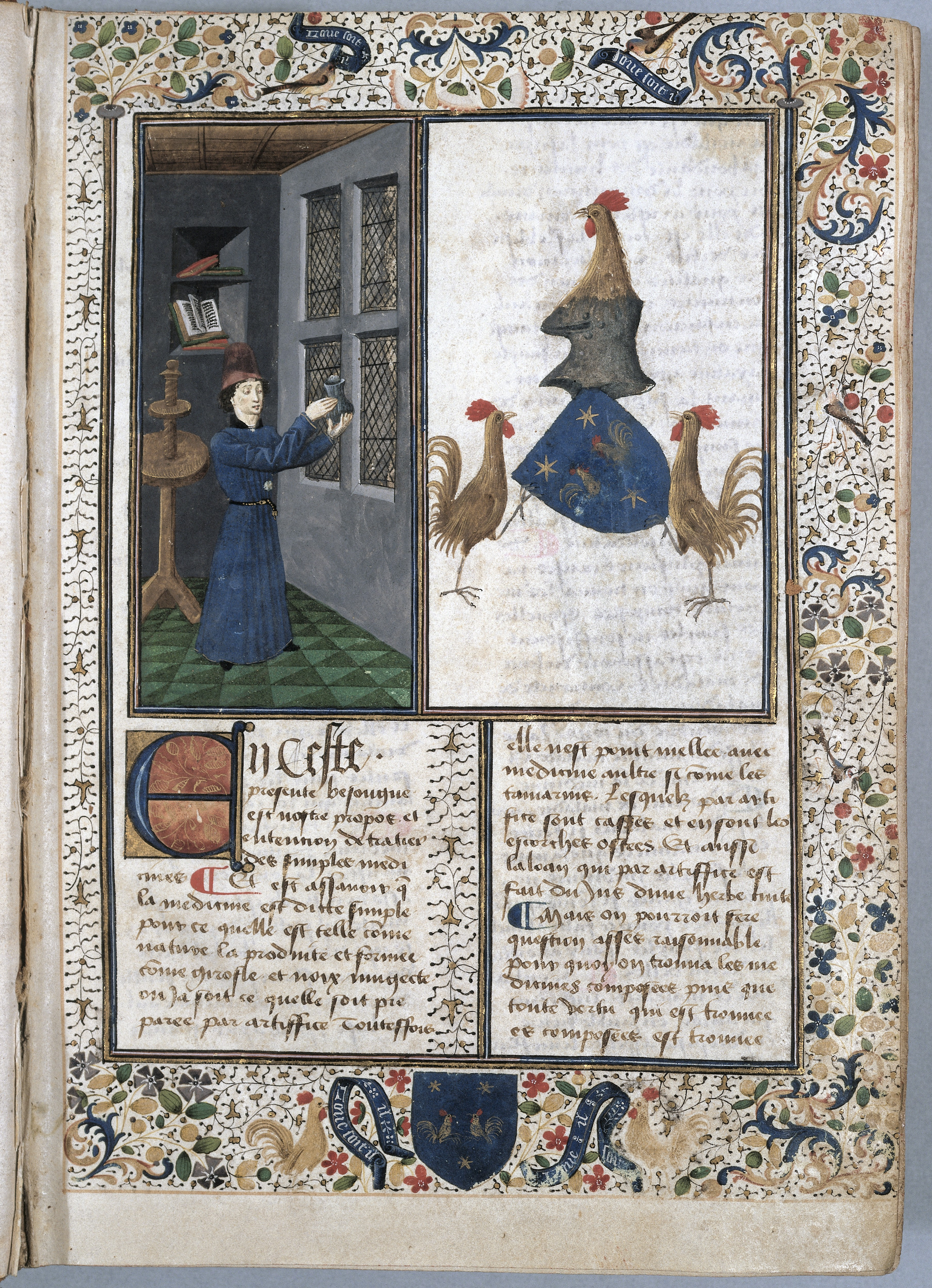 Author portrait of Platearius, believed to be a Salernitan physician (with urinoscopy flask). Archives & Manuscripts Keywords: platearius, matthaeus { -11; western manuscripts; wms 626; Urology